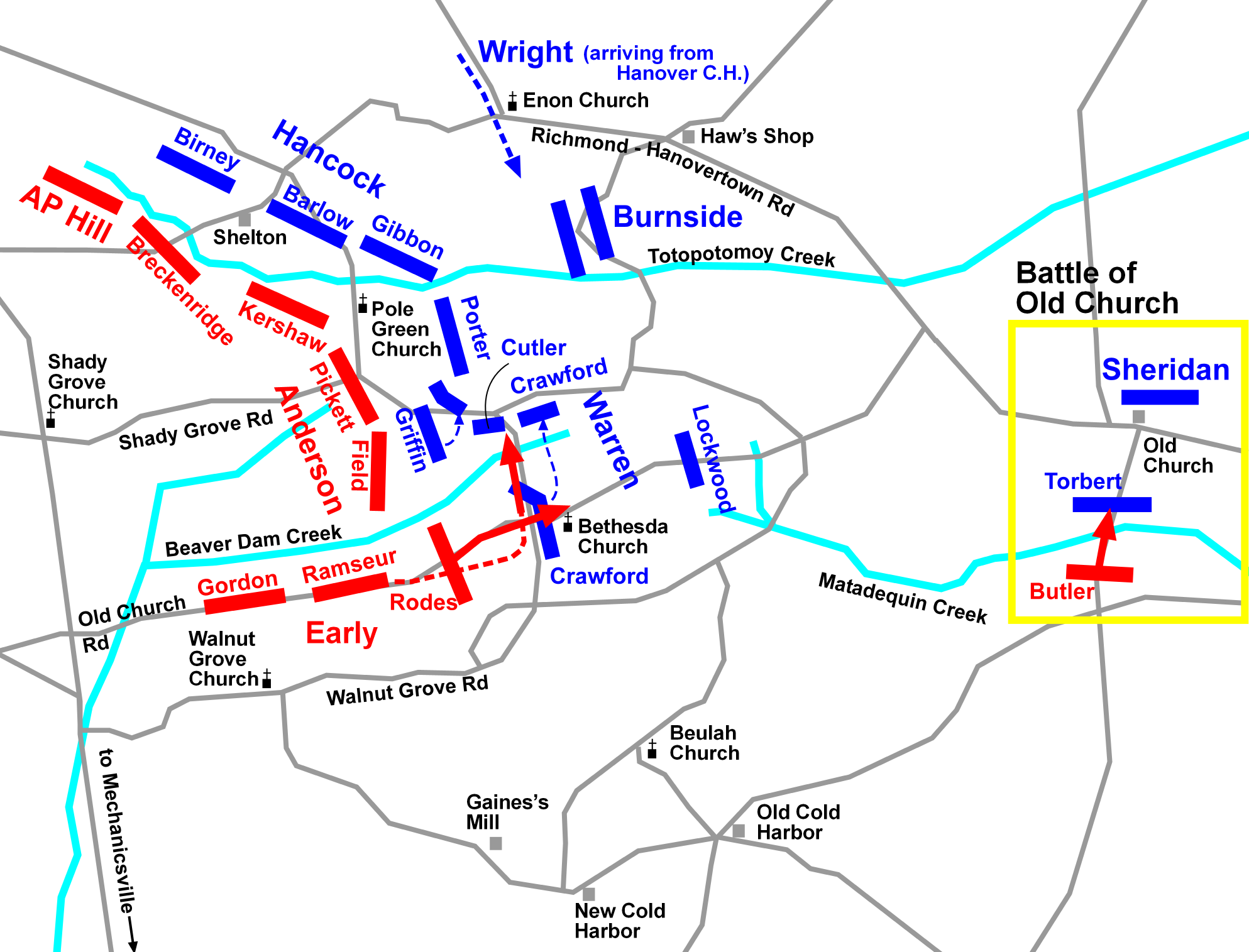 Battle of Totopotomoy Creek